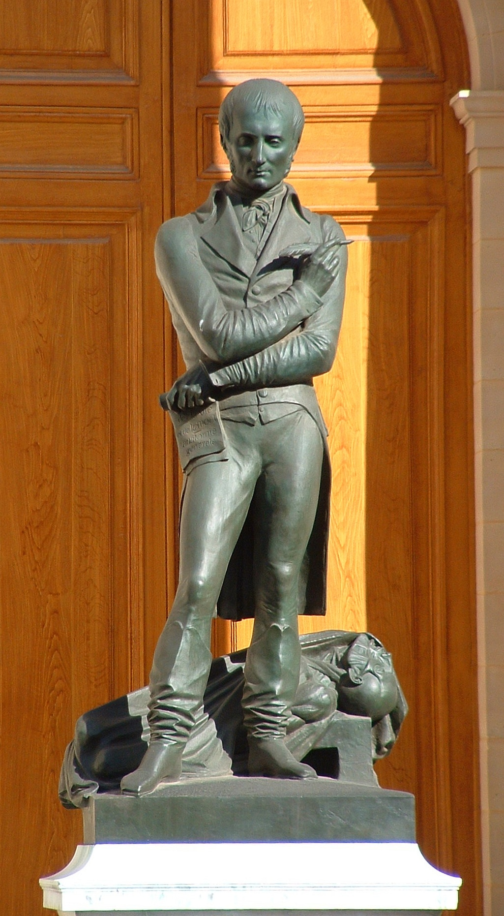 Bronze statue of Xavier Bichat by David D'Angers. In the honour cour of University Paris-Descartes - Paris 6th arrondissement.